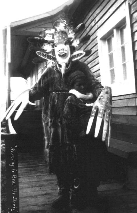 Eskimo Medicine Man. Alaska, Exorcising Evil Spirits from a Sick Boy (description from image on photograph itself). Found in the collections of the Library of Congress, a copy of this photo also appears in the Thwaits Collection, Special Collections Division, University of Washington Libraries, where it is identified as having been photographed in Nushagak, Alaska in the 1890s (Fienup-Riordan, Ann. (1994). Boundaries and Passages: Rule and Ritual in Yup'ik Eskimo Oral Tradition. Norman, OK: University of Oklahoma Press, p. 206.) Nushagak, located on Nushagak Bay of northern Bristol Bay in southwest Alaska, is part of the territory of the Yup'ik, speakers of the Central Alaskan Yup'ik language.